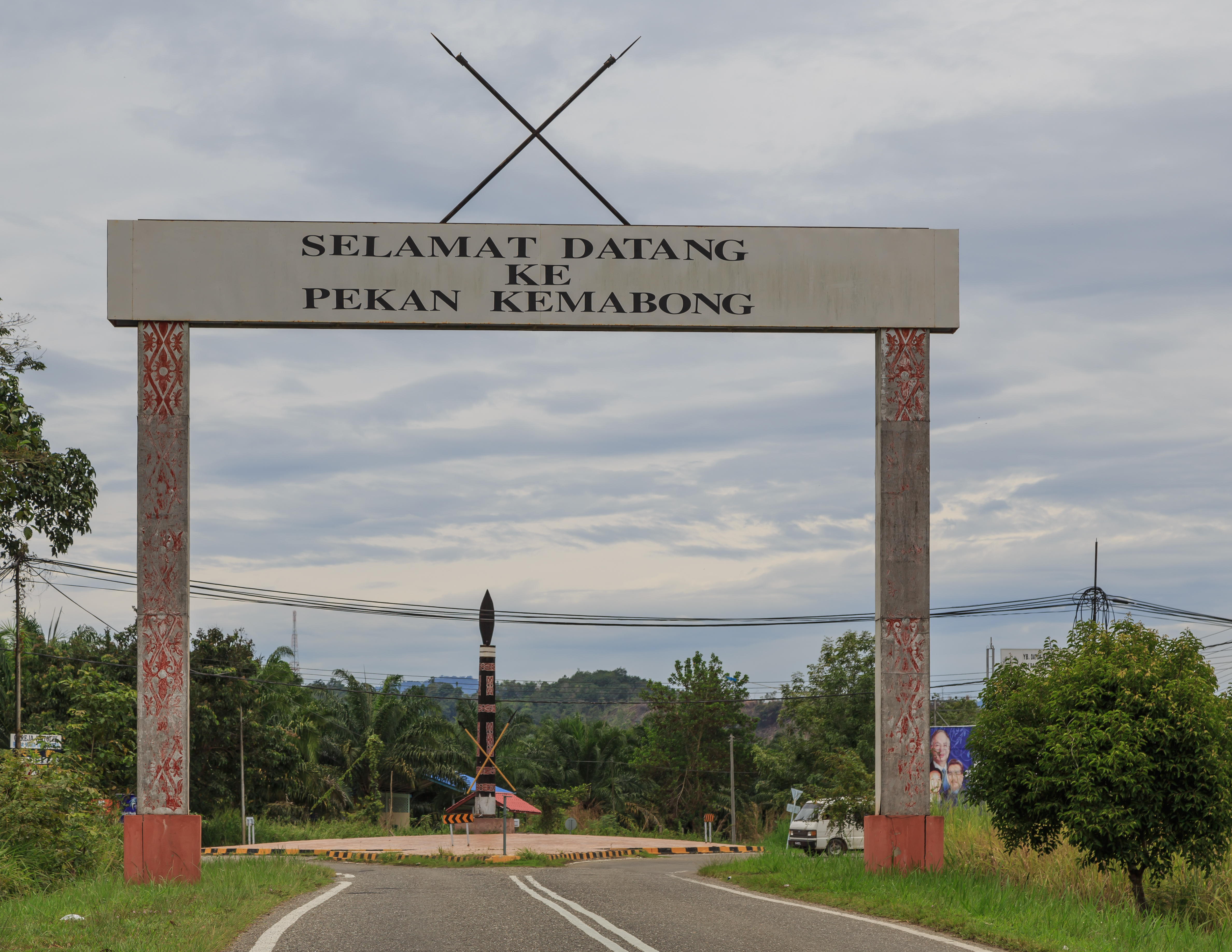 Kemabong, Sabah, Malaysia: Entrance gate to Pekan Kemabong